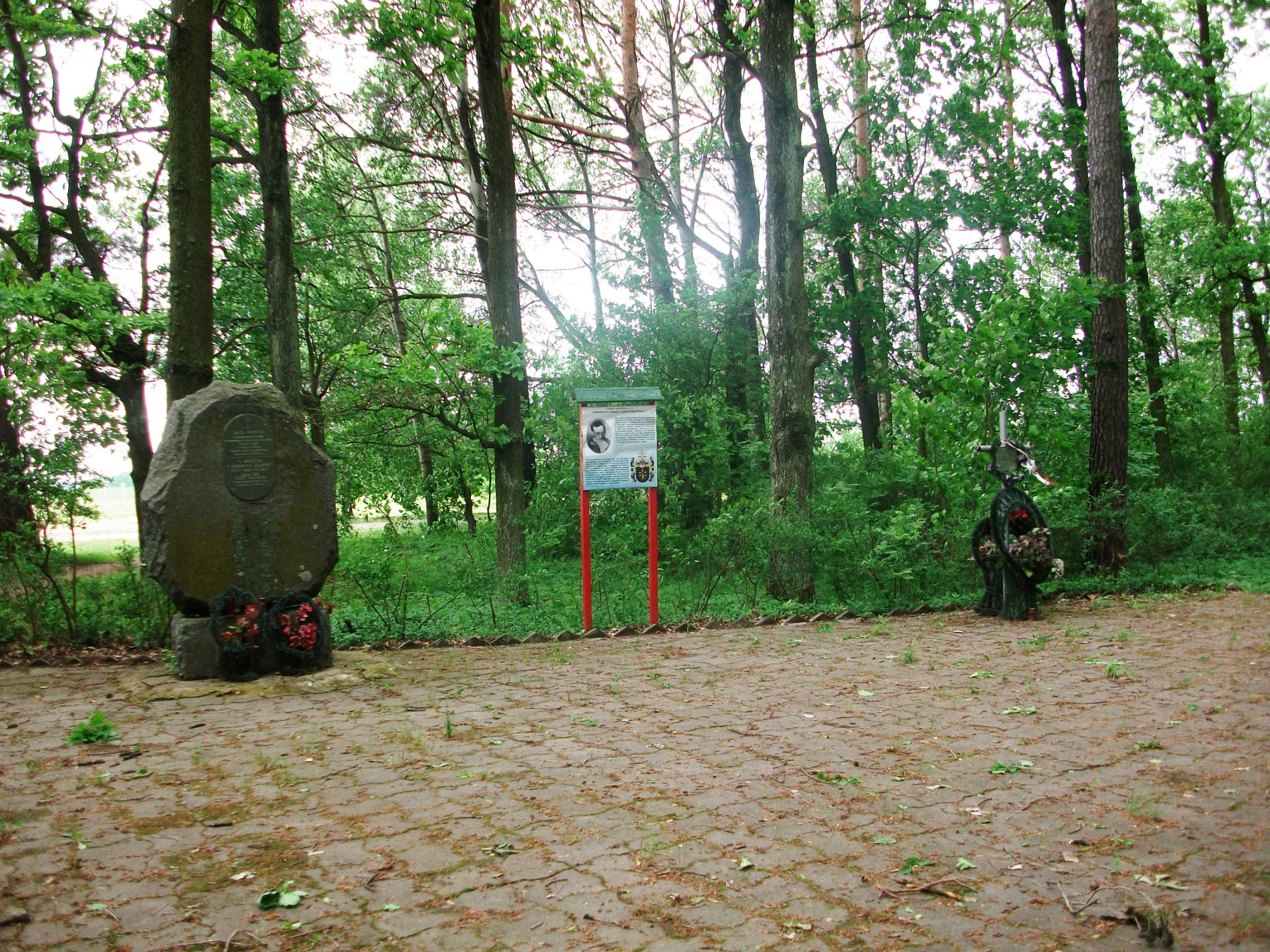 Burial place of Raman Skirmunt